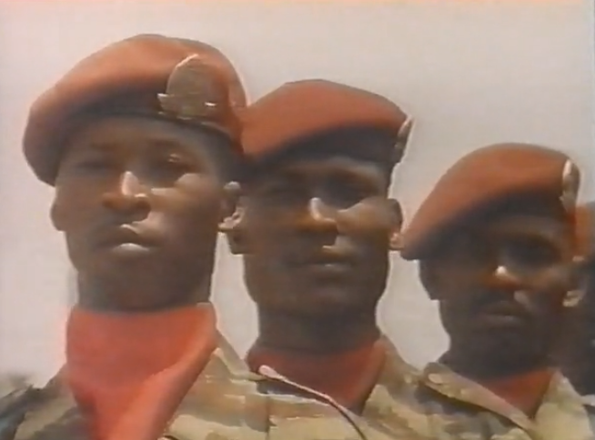 Soldiers of the 31st Zairian Airbone Brigade during a speech by General Mahele, between 1991-1993